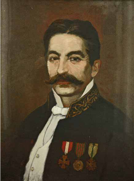 Portrait of Vitto Positano, end of the 19-th century. Unknown artist. Exhibited in the Embassy of the Republic of Italy in Bulgaria